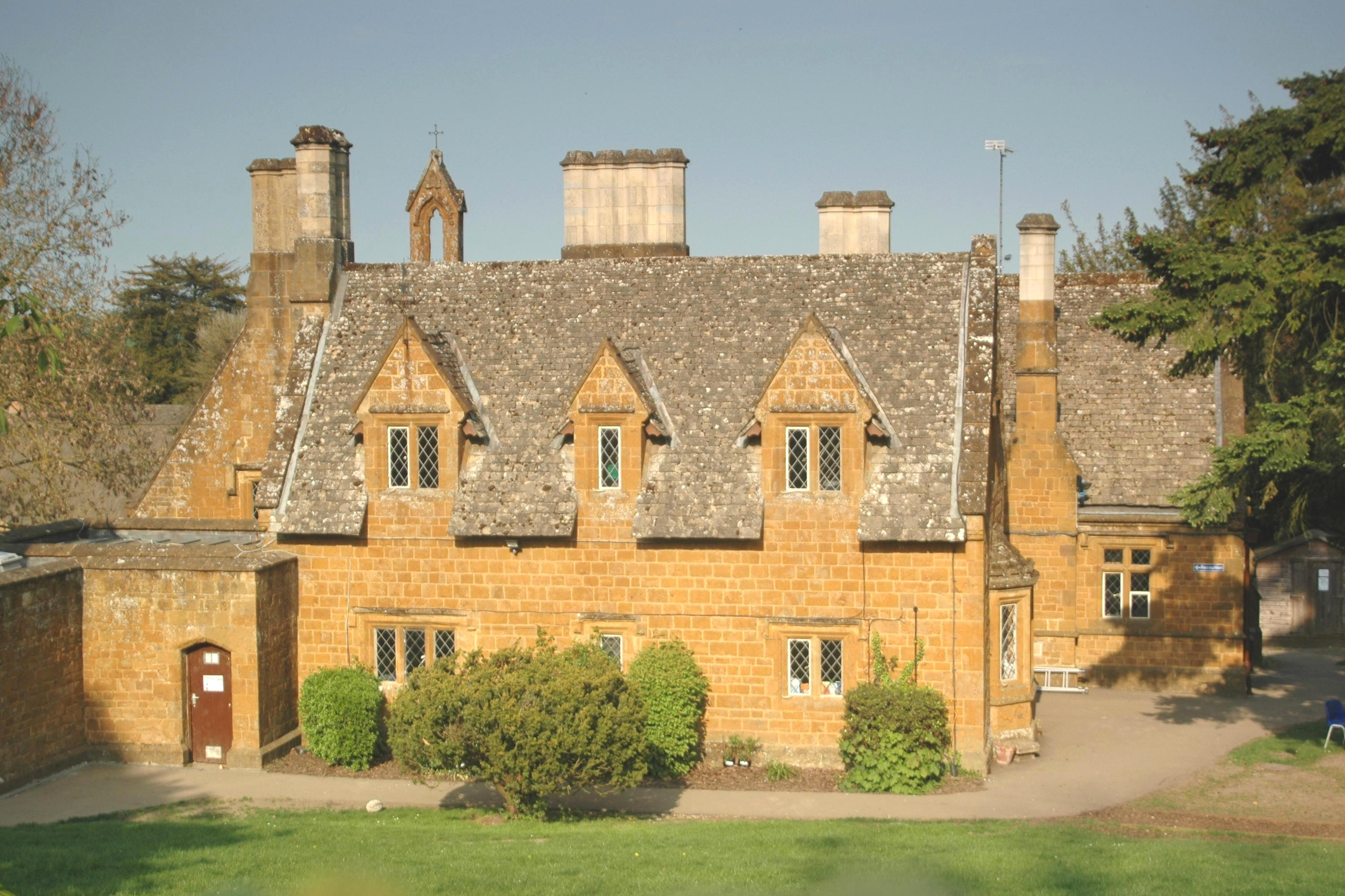 County primary school, Great Tew, Oxfordshire, viewed from New Road